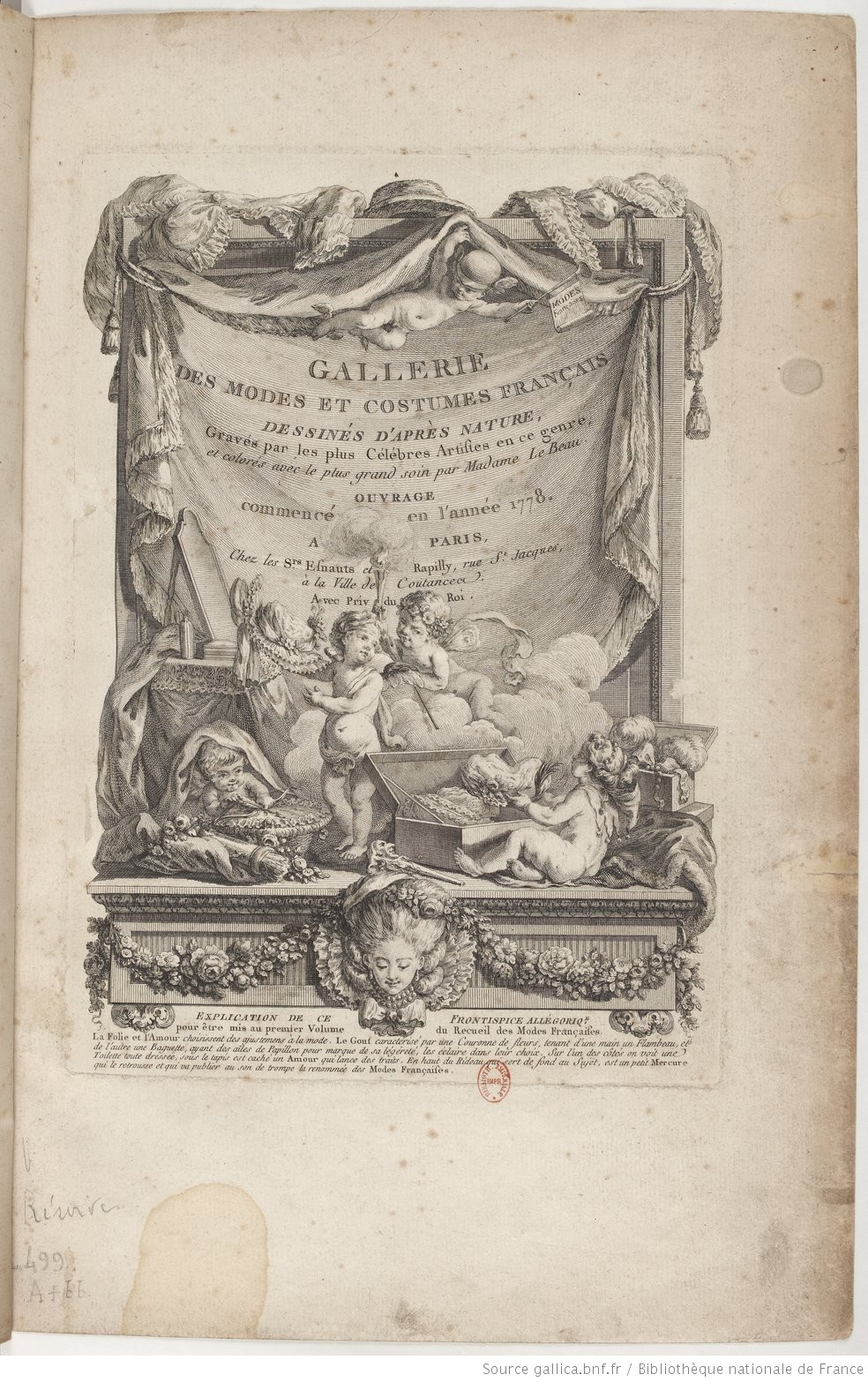 This is the frontispiece for Galerie des modes et costumes, a series of fashion and costume prints produced in France during the 18th century.